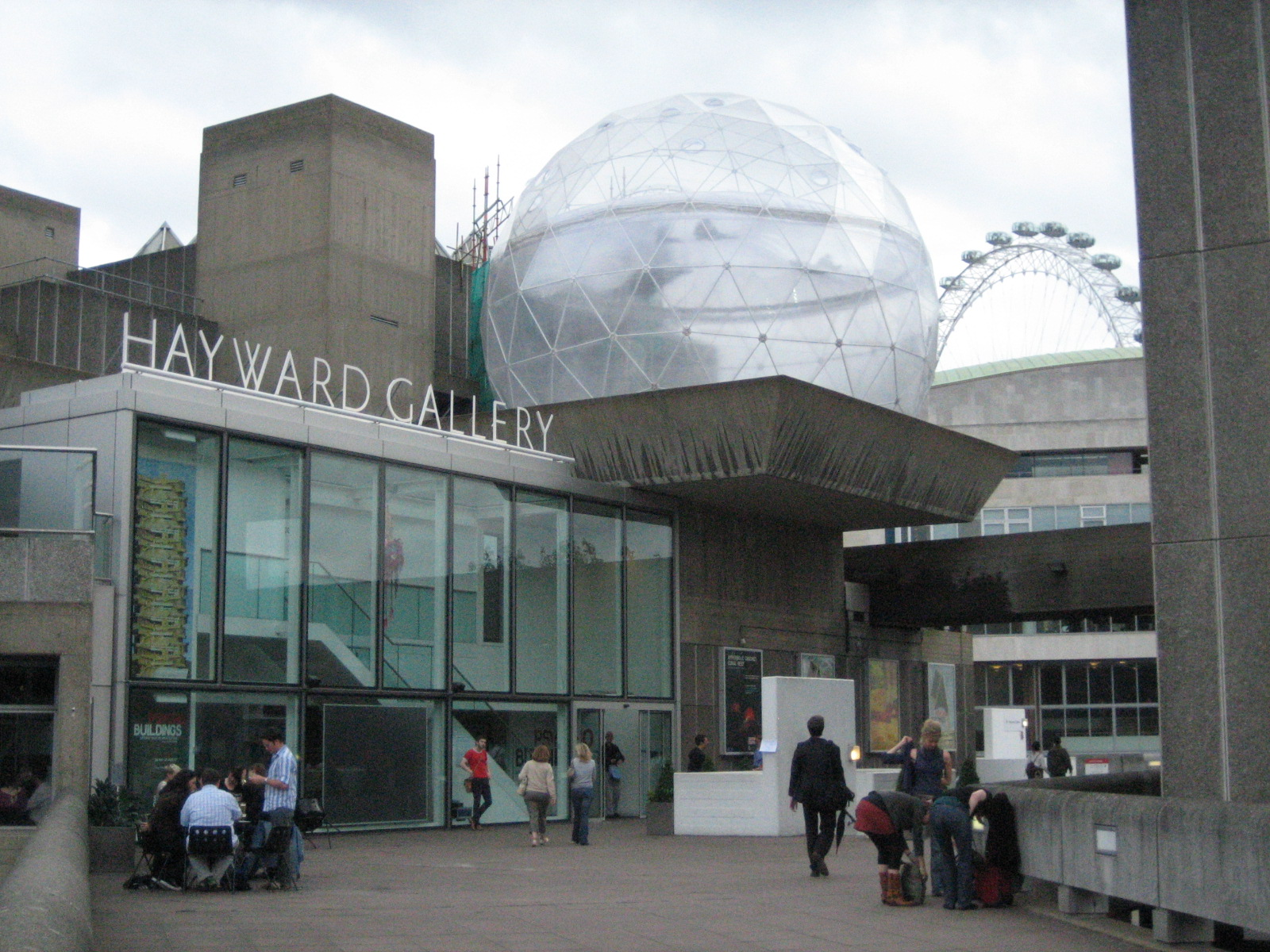 Exterior of the Hayward Gallery on the South Bank in London.